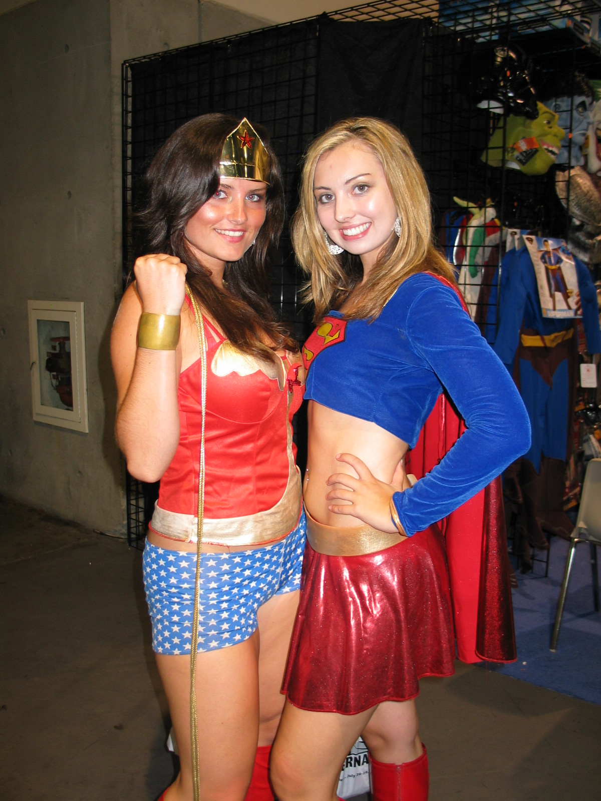 two hot for tv